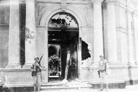 Damaged entryway of the Ilustre Instituto Veracruzano. A High School adjacent to the Mexican Naval Academy in Veracruz, Mexico, 1914.